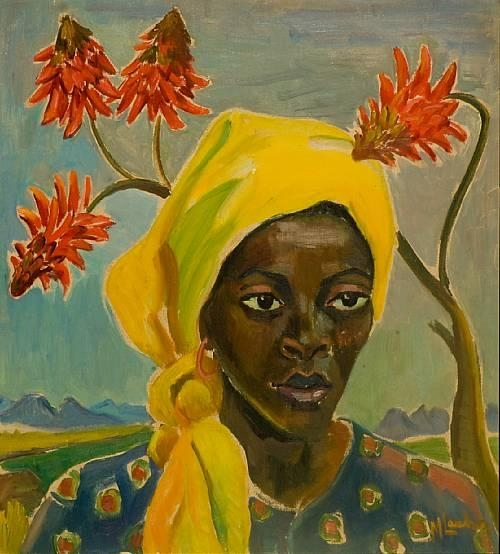 The painting, 'Annie of the Royal Bafokeng' is signed 'M. Laubser' (lower right) and further signed, inscribed, and dated 'Maggie Laubser, Oortmanspoort, Klipheuvel Stasie, Kaap 1945'. The picture is oil on canvasboard, 50 x 45cm.